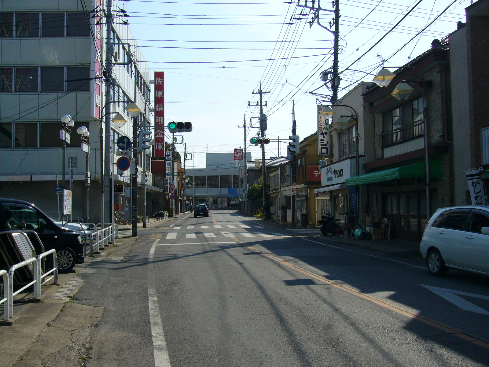 The Chiba Prefectural Road Route 2 in Katori City